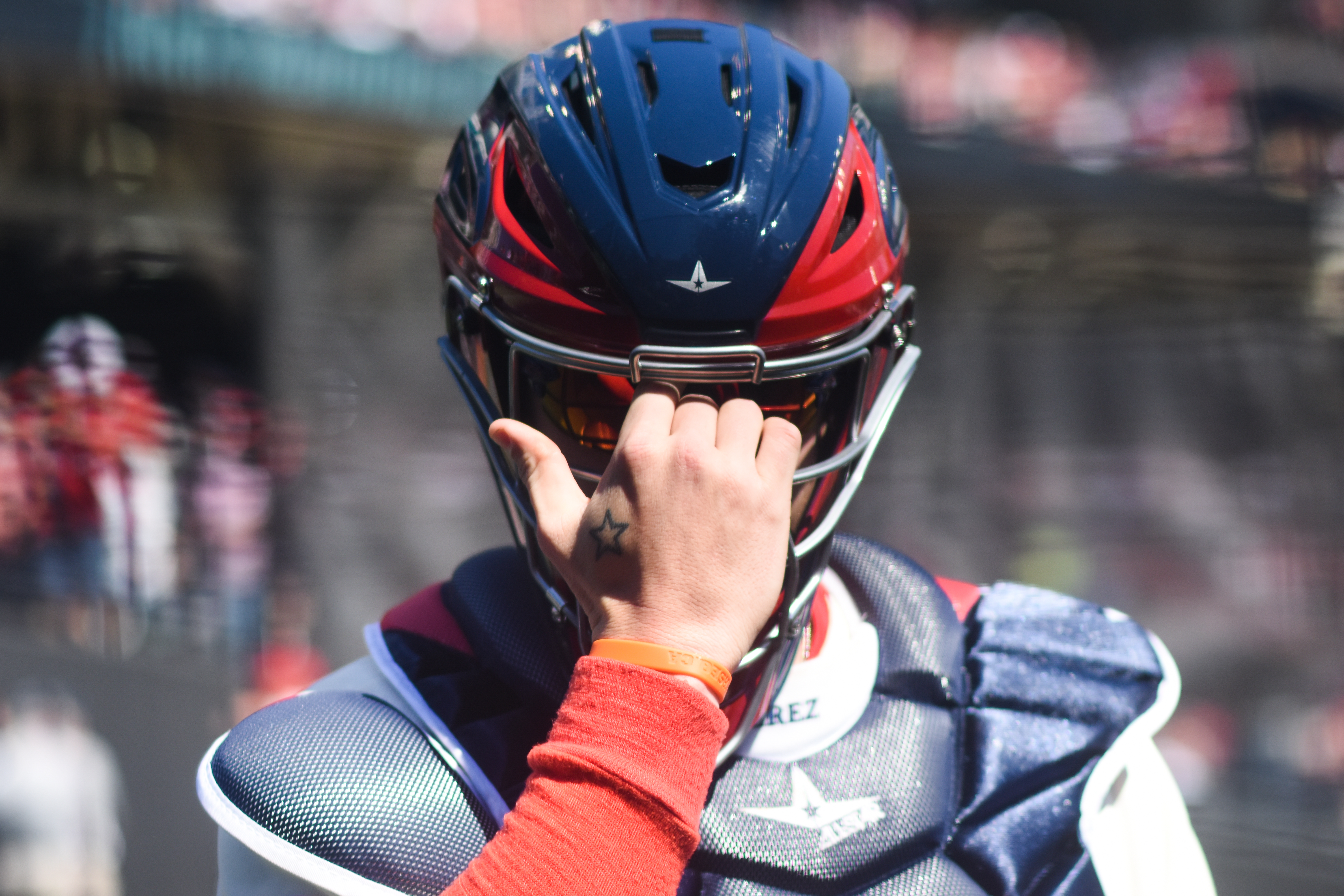 Roberto Pérez